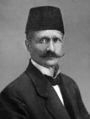 Suleiman Bey (Süleyman Boşank)